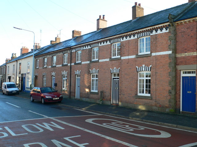 Terraced housing, Kerry On the main street, the A489.